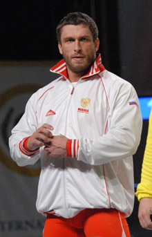 Dmitry Klokov at the 2011 World Weightlifting Championship (WWC)